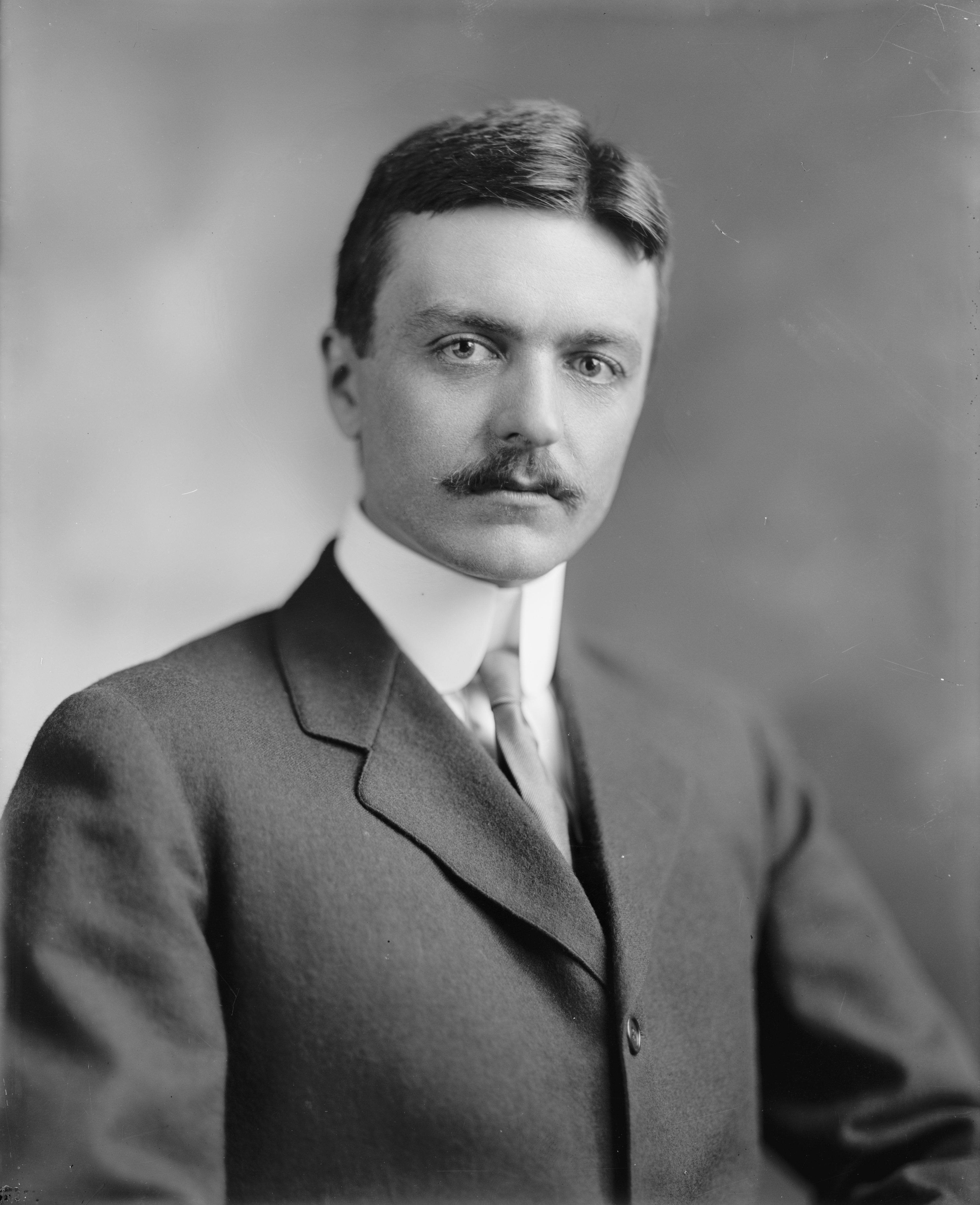 Lathrop Brown, Congressman from New York.